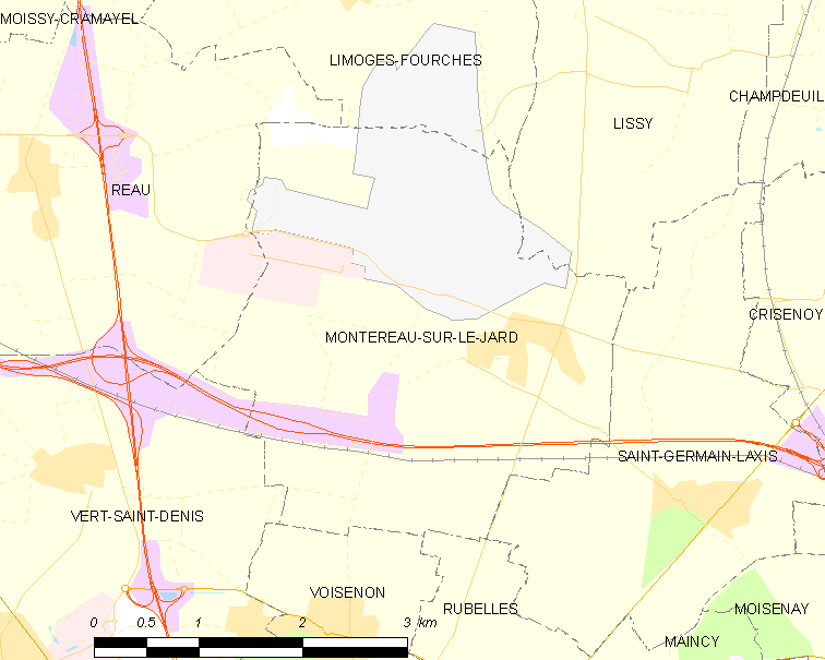 Map of French municipality Montereau-sur-le-Jard